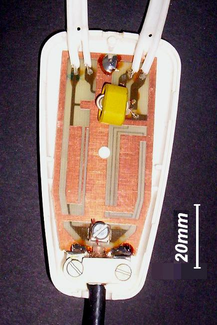 antenna splitter made from striplines